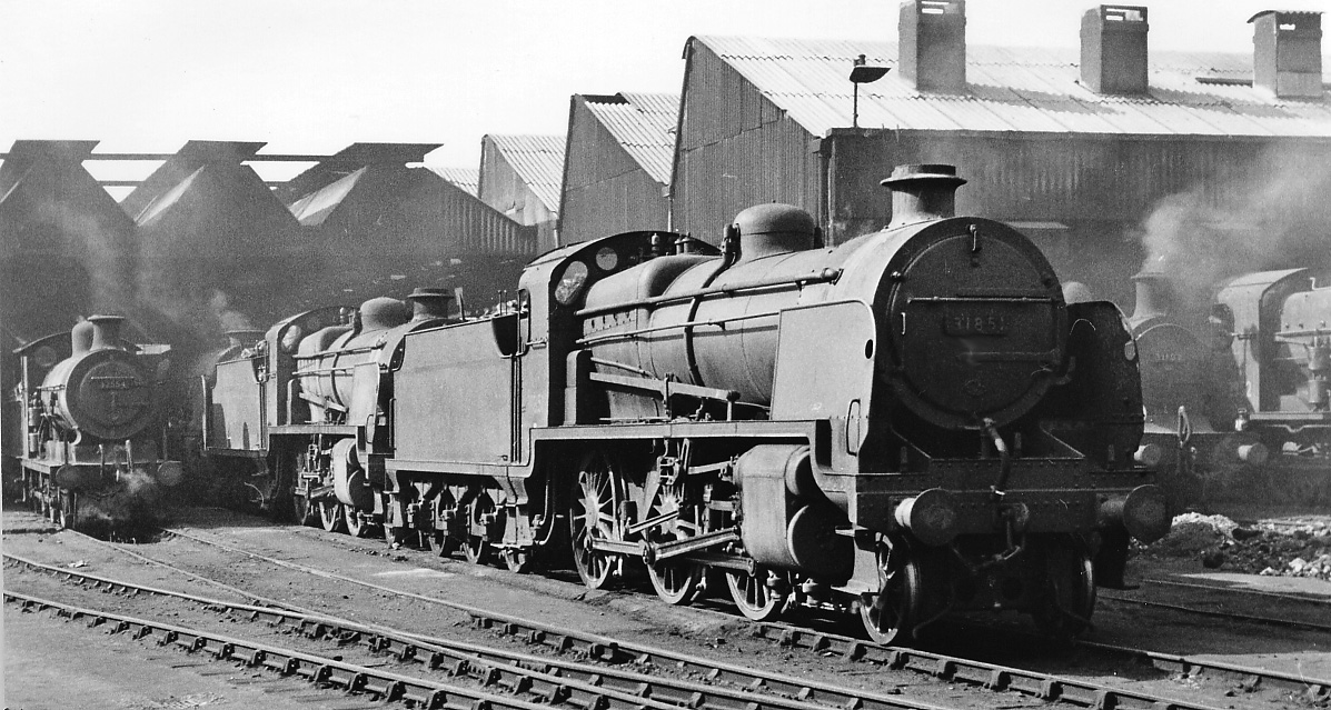 Bricklayers Arms Locomotive Depot, with SR 2-6-0 View NW, outside main shed. The prominent 2-6-0 is Maunsell N class No. 31851 (built 2/25, withdrawn 9/63). (See also TQ3378 : LB&SC 0-6-0 at Bricklayer's Arms Locomotive Depot).